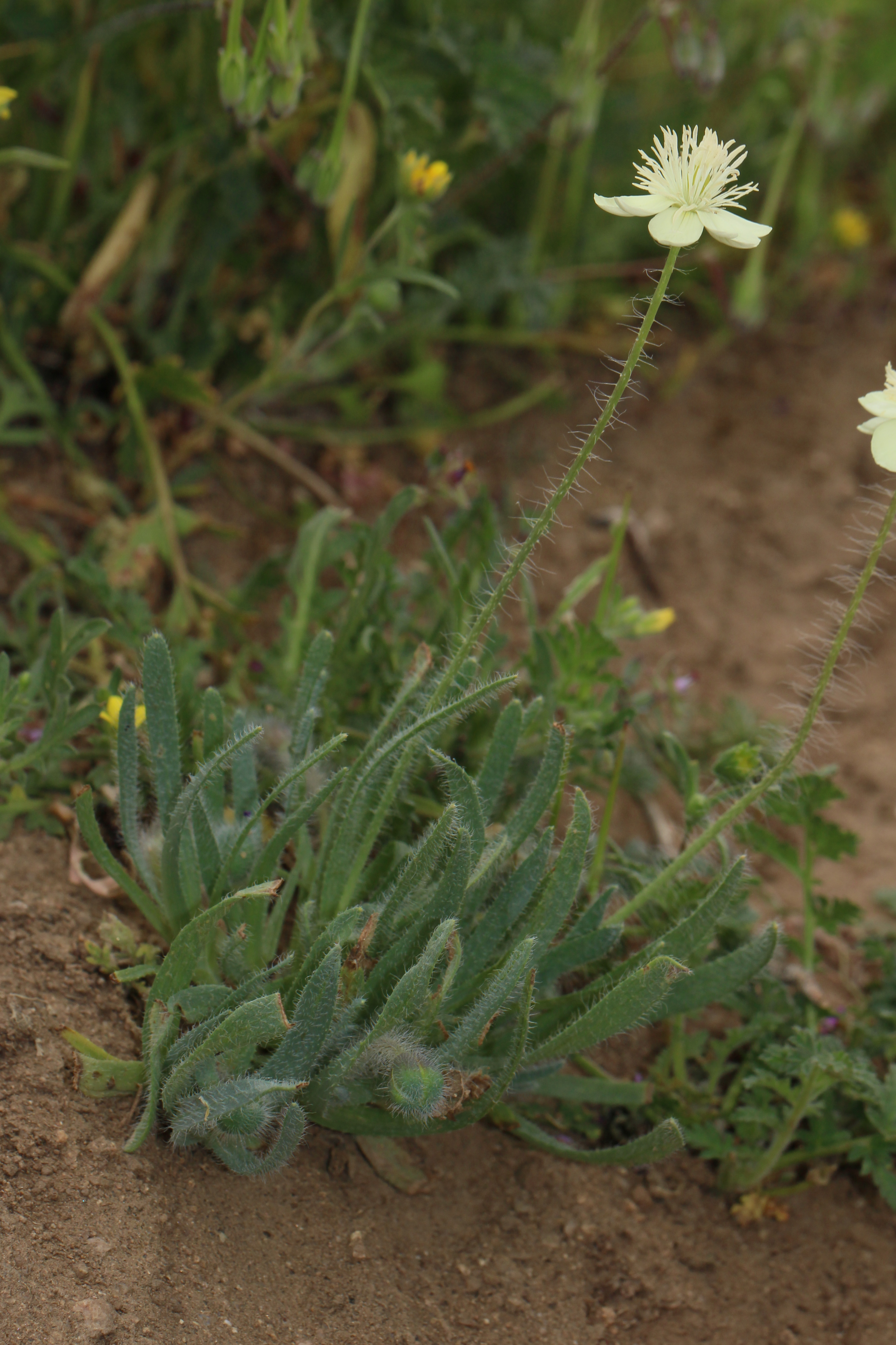 Creamcups Identification by: Linda Edwards and Vern Benhart Viewpoint location: Antelope Valley California Poppy State Reserve, Lancaster, California Viewpoint elevation: 869 meter (2850 ft) Location source: Garmin GPSmap 60CSx Location Datum: WGS84